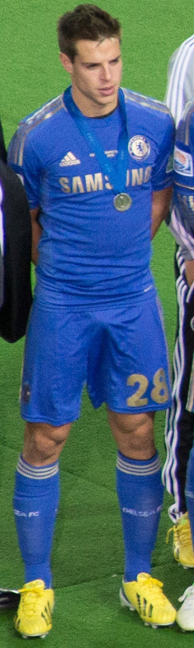 César Azpilicueta at the FIFA Club World Cup.